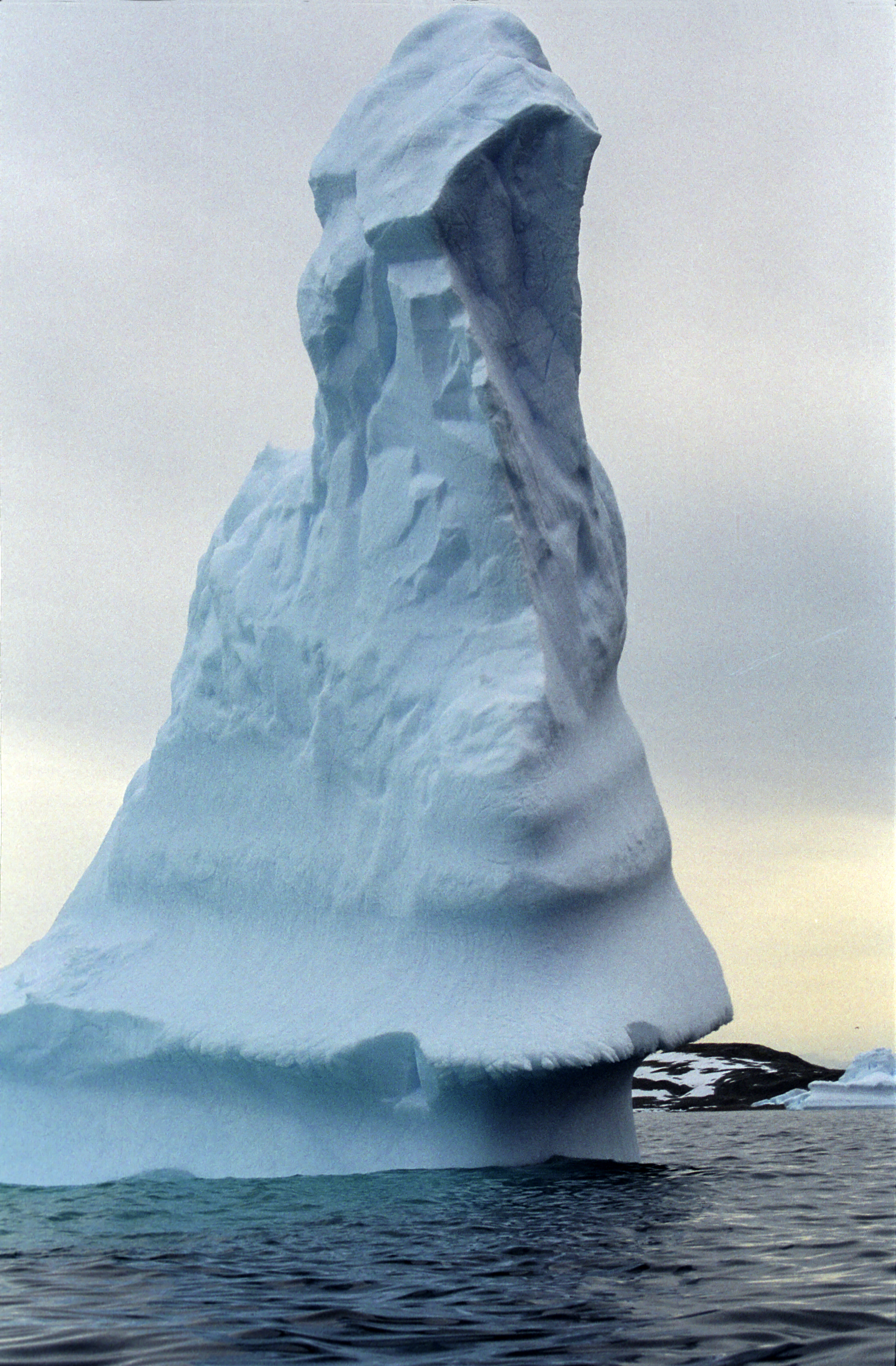 Antarctica, iceberg "old woman"